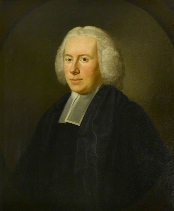 Portrait of John Russell Greenhill (c.1730–1813), English cleric.